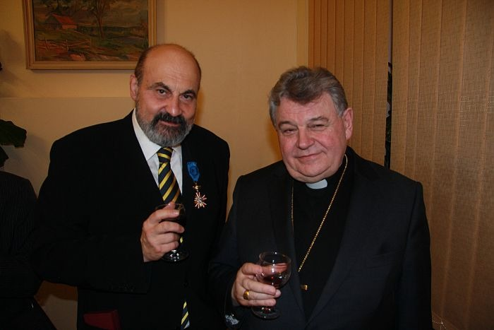 S Tomášem Halíkem